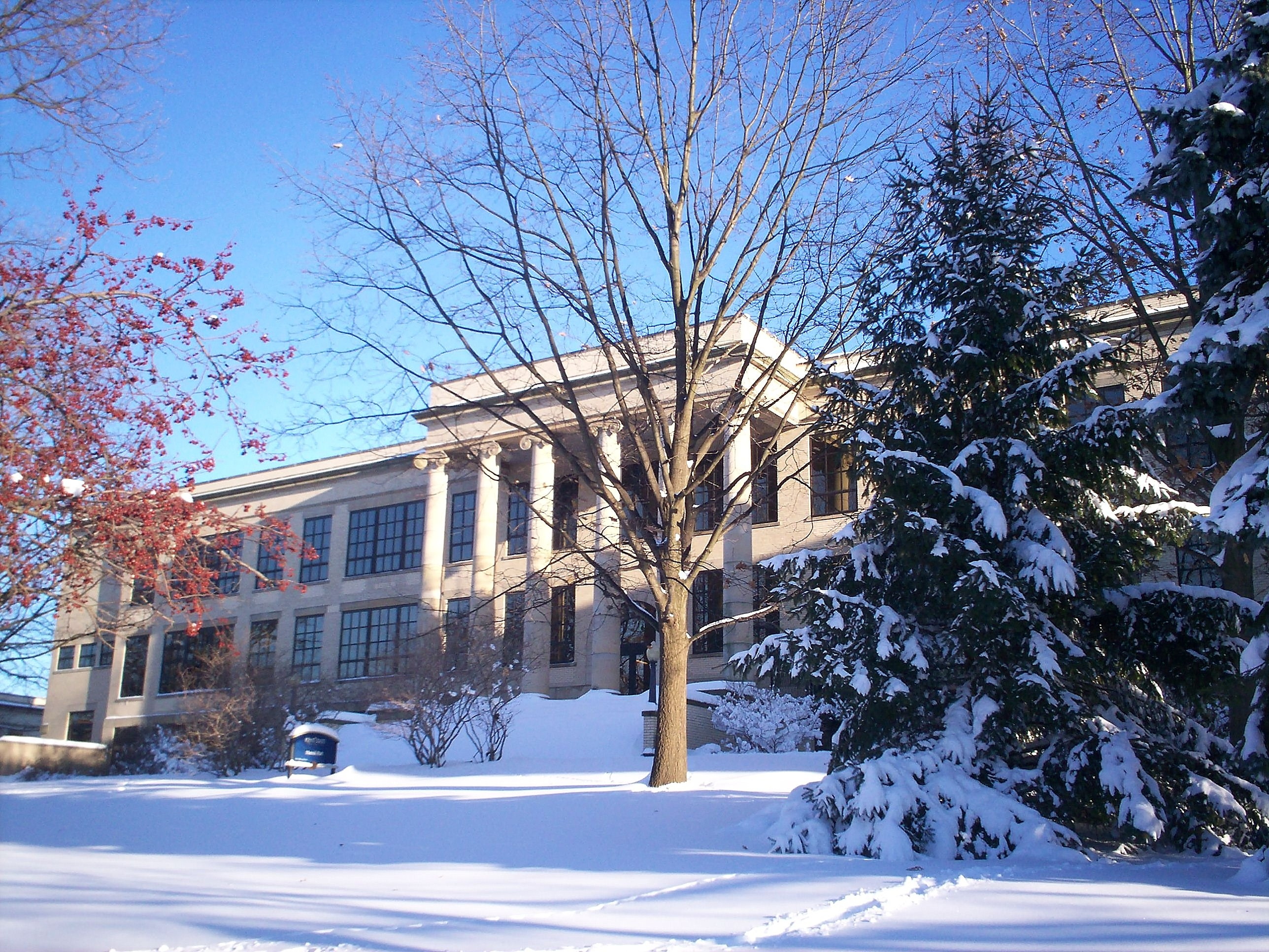 Merrill Hall on the campus of Kent State University in Kent, Ohio, USA. It is the oldest building on campus and forms a part of the Ohio State Normal College At Kent historic district, a listing on the National Register of Historic Places.